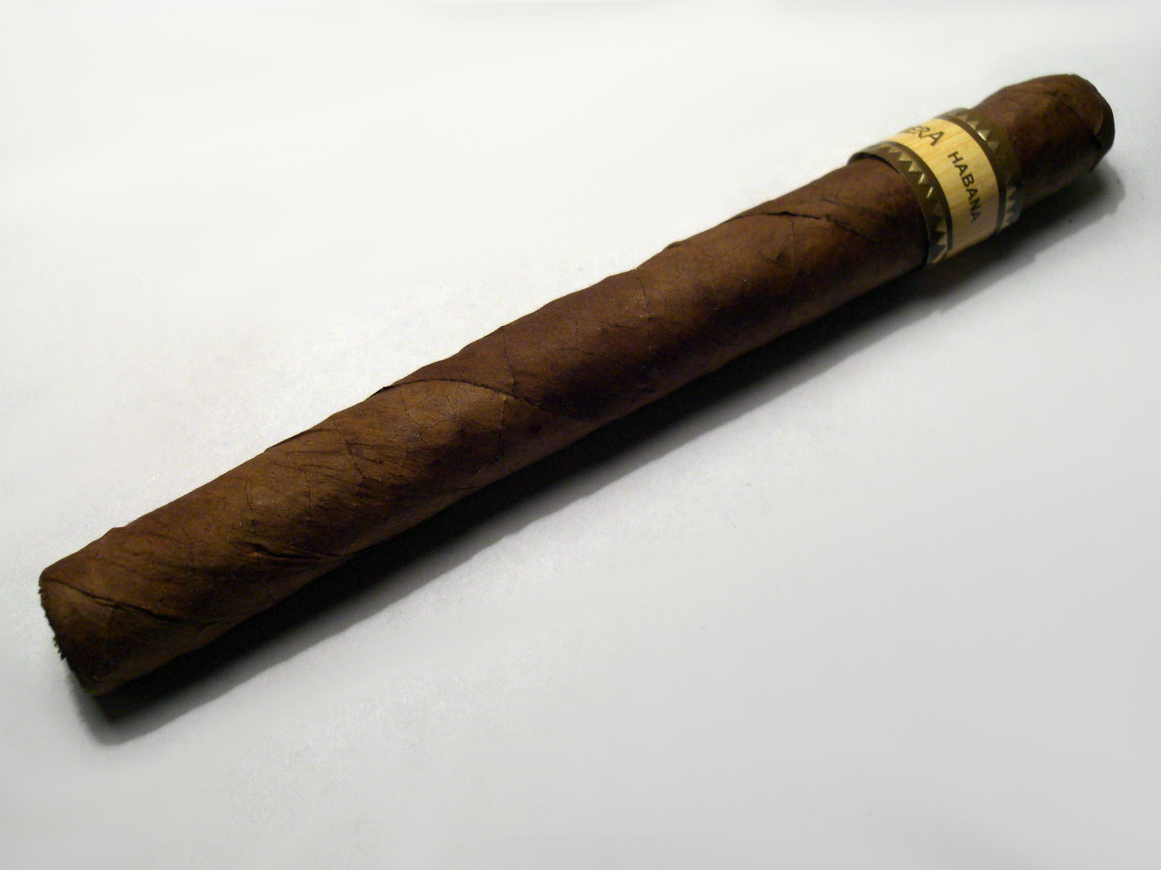 Cigar from Cuba ( called: "cheap cuba" )